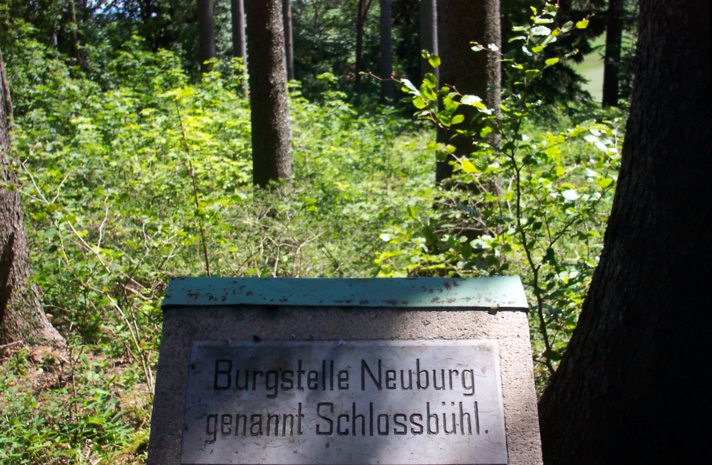 Burgstelle Neuburg (place of the castle Neuburg); except the stone tablet there are no further relicts to see.